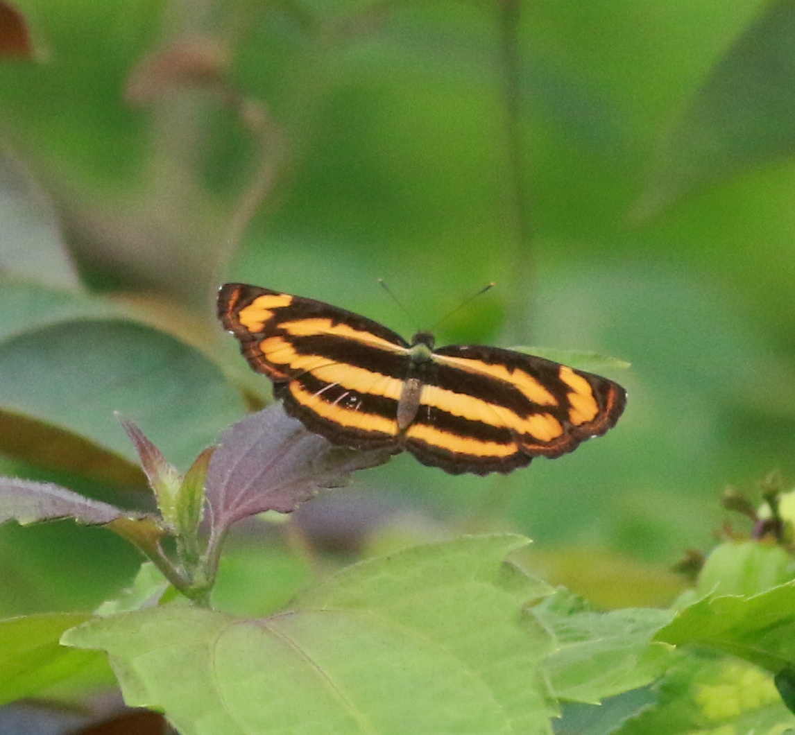 Common Lascar